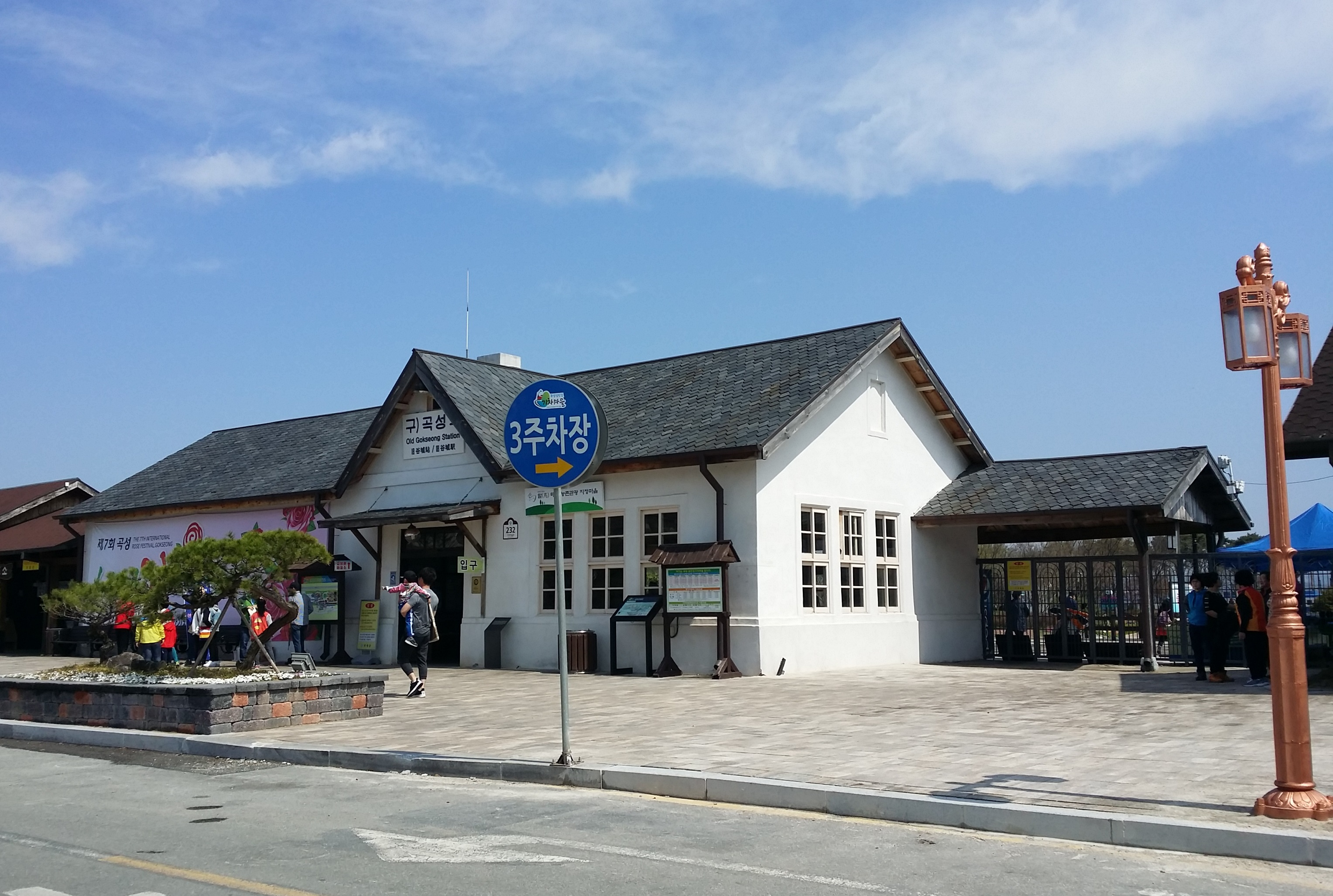 Old Gokseong station